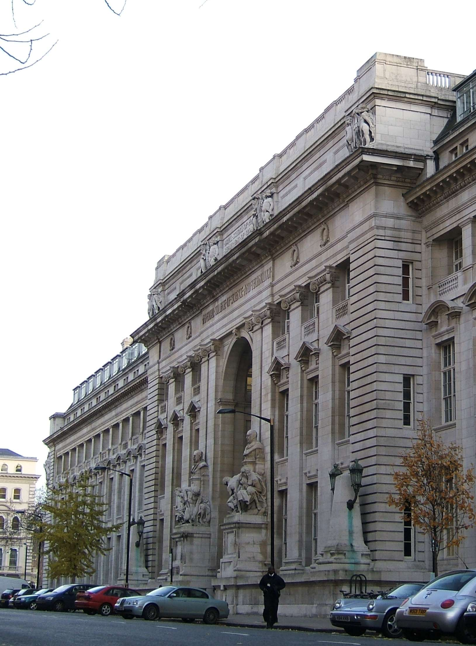 Royal School of Mines entrance and the Goldsmiths' wing, Prince Consort Road, London. Architect: Aston Webb Author: self